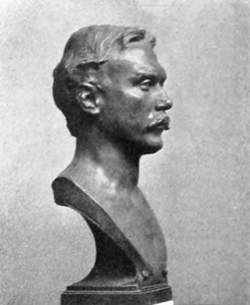 Bust of Walter Elmer Schofield by Charles Grafly